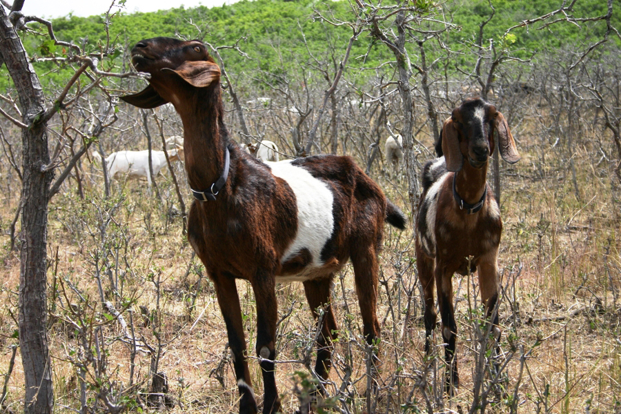 Goats being used by the Utah Army National Guard to create a firebreak on Camp W. G. Williams, located near Salt Lake City, Utah.